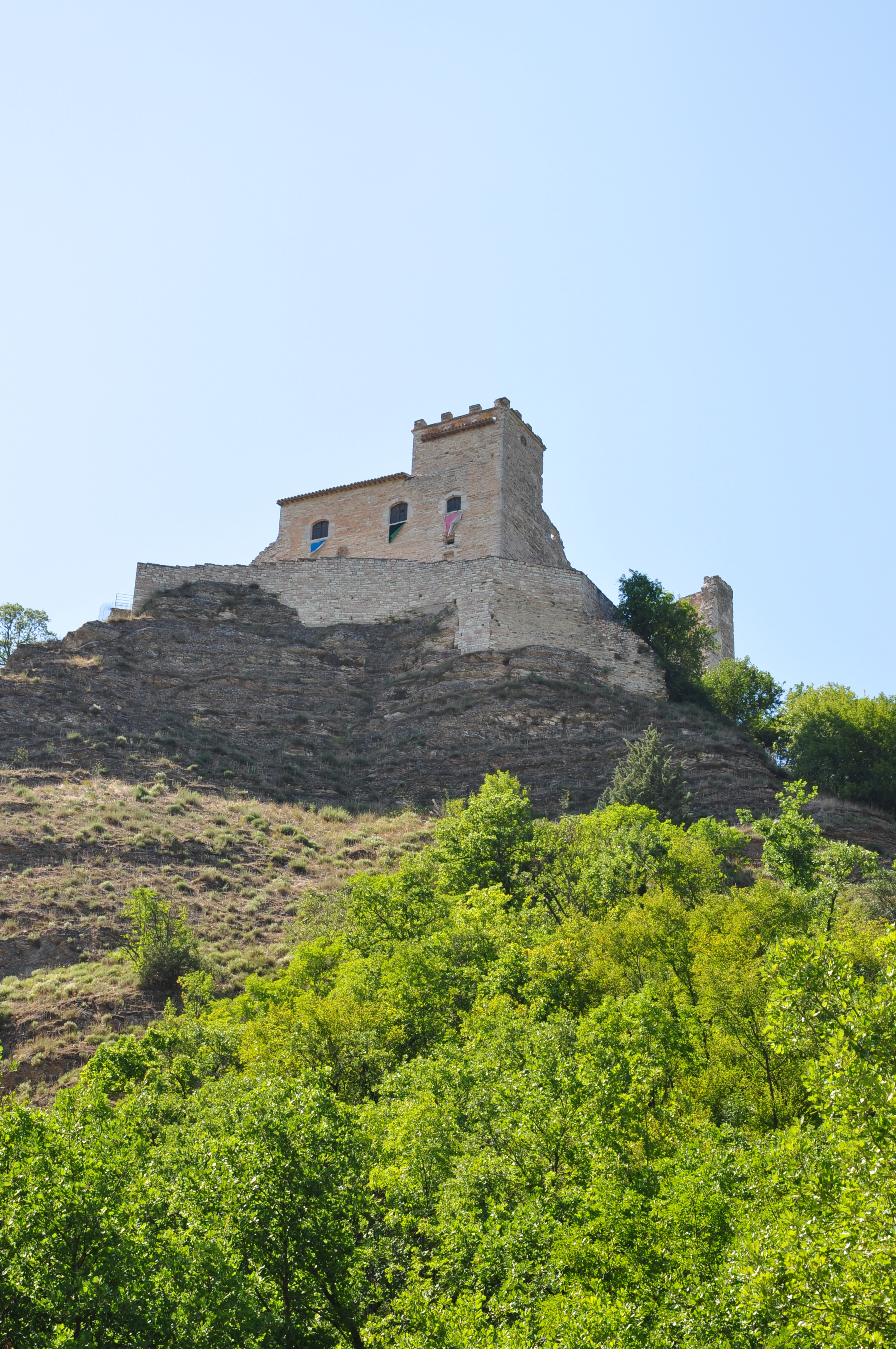 View of Rocca Varano in Camerino (Italy)